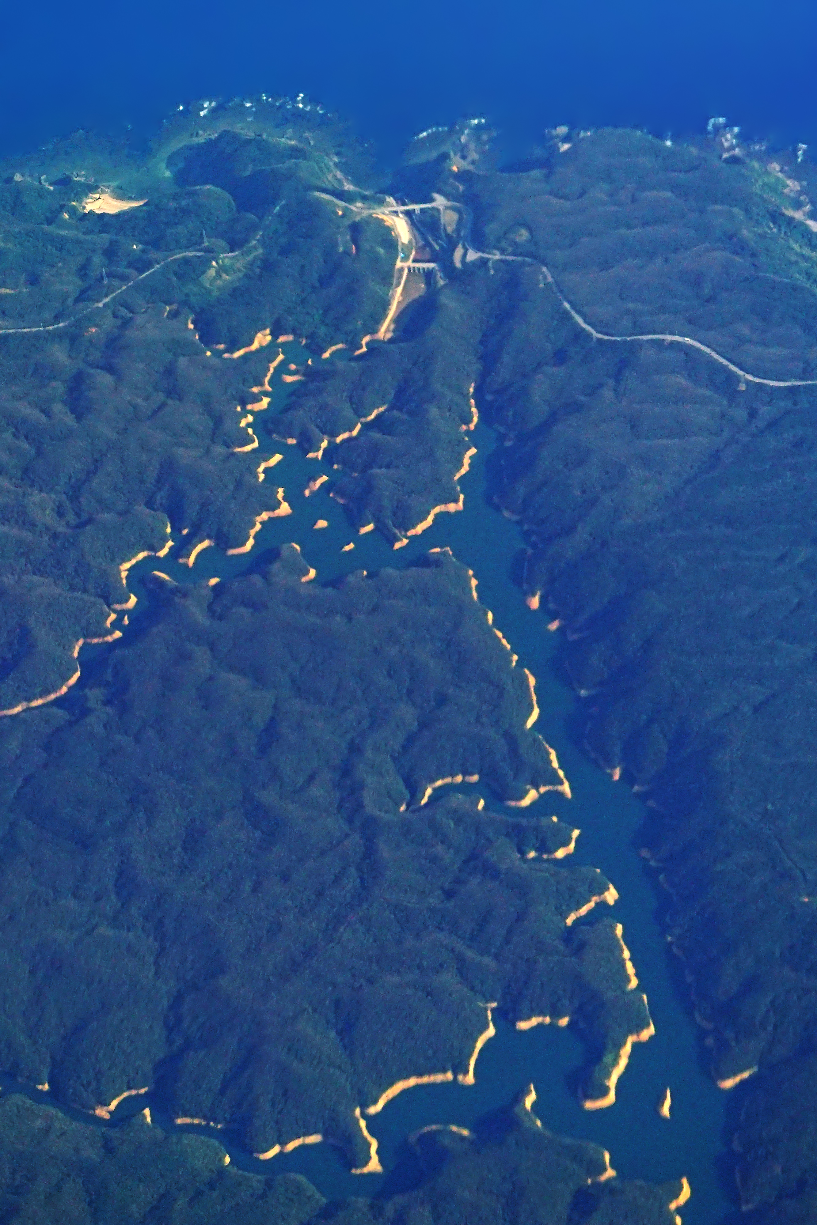 Lake Fukugami in Higashi, Okinawa prefecture, Japan